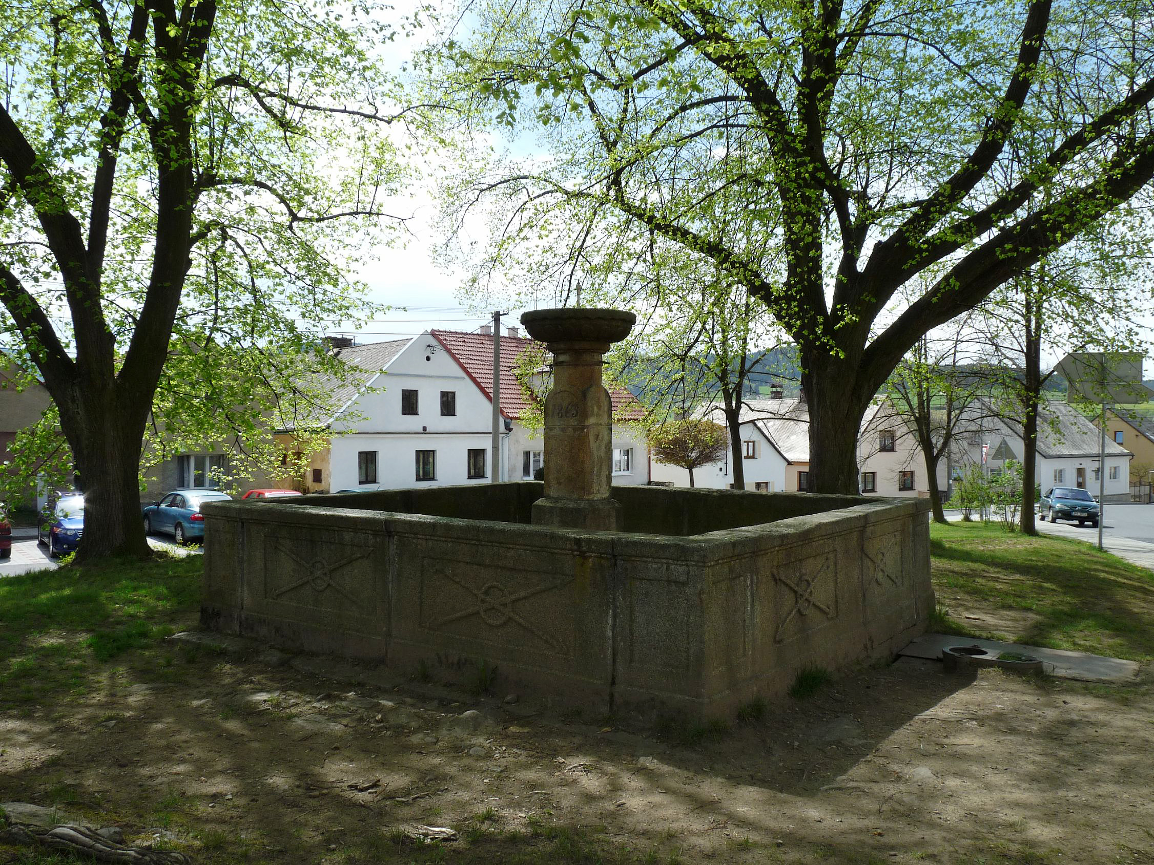 Fountain in the town of Strážov, Klatovy District, Czech Republic.